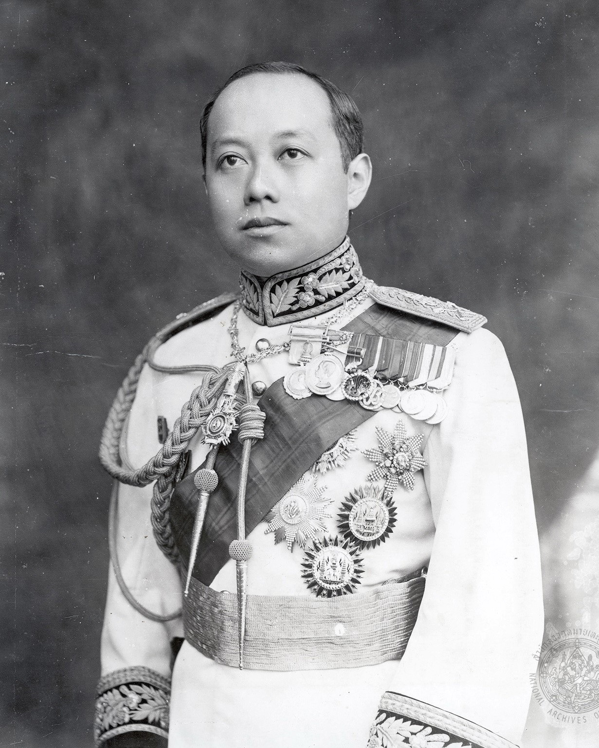 Photographic portrait of King Vajiravudh (Rama VI) of Siam